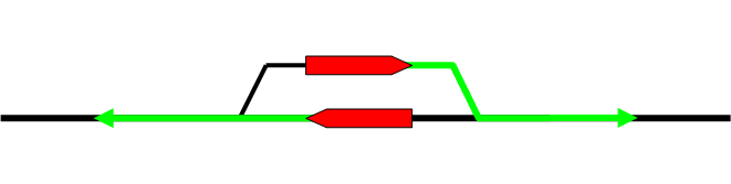 Example of passing loop action under the European safety rules, part 3: train #2 has arrived, exit route set for train #1